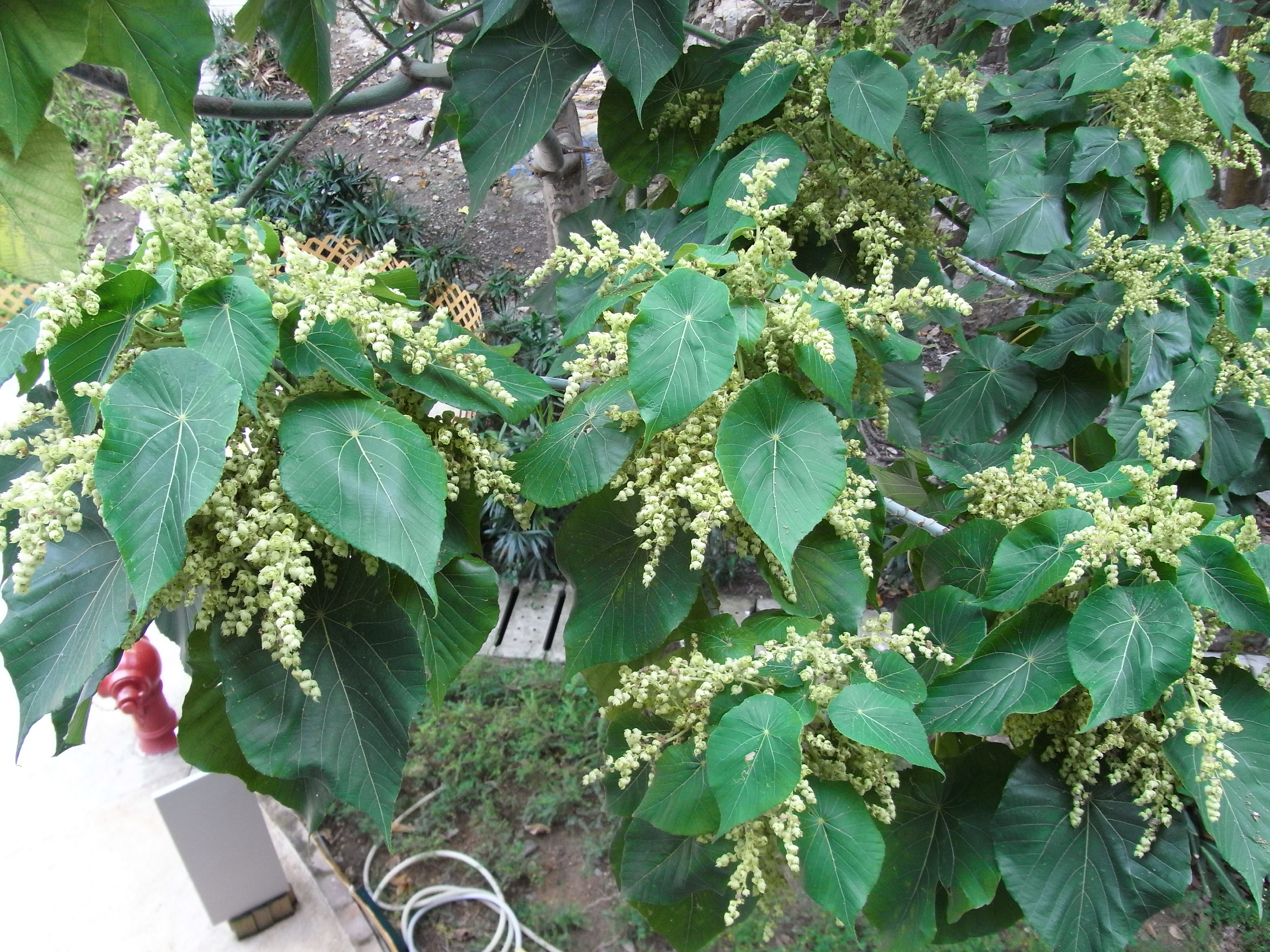 鴨脷洲風之谷公園 植物, plants in Ap Lei Chau Wind Tower Park, Hong Kong